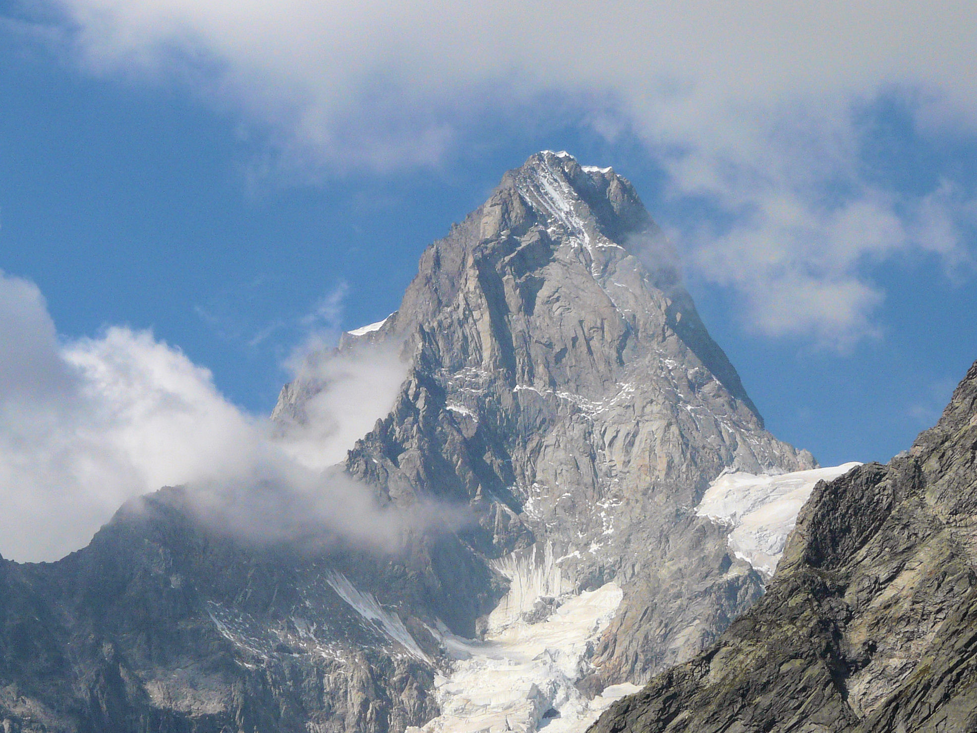 Grandes Jorasses - East face